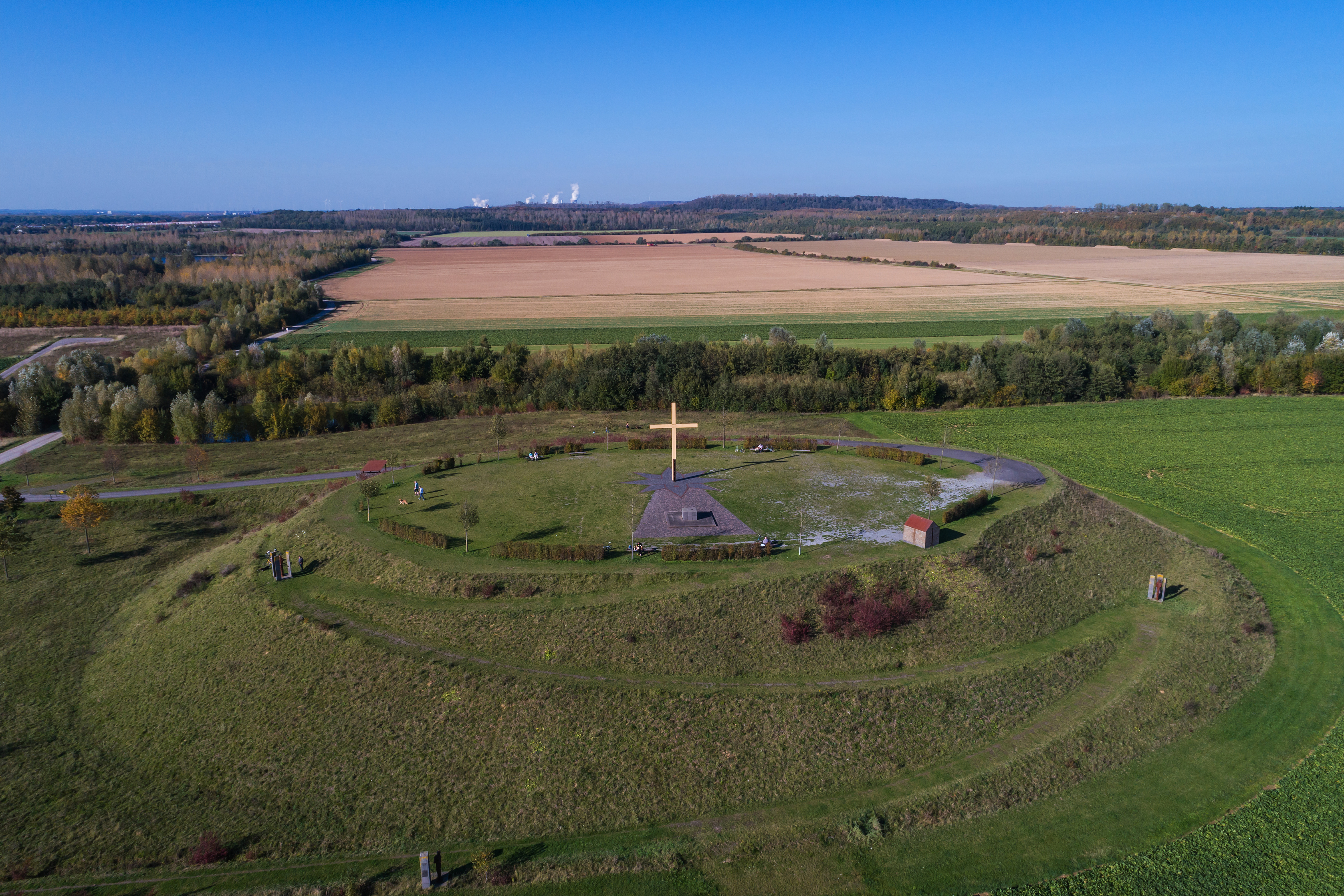 Aerial photo of Marienfeld in Kerpen, Rhein-Erft-Kreis (Germany)